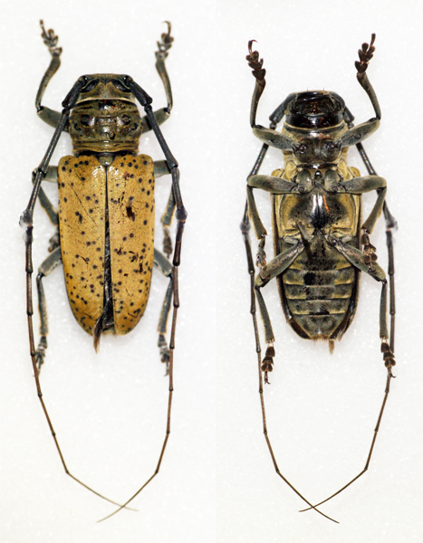 Thomson,1868 Sex: Male Data: 10-2013 - Ebogo - Cameroon Size: ?